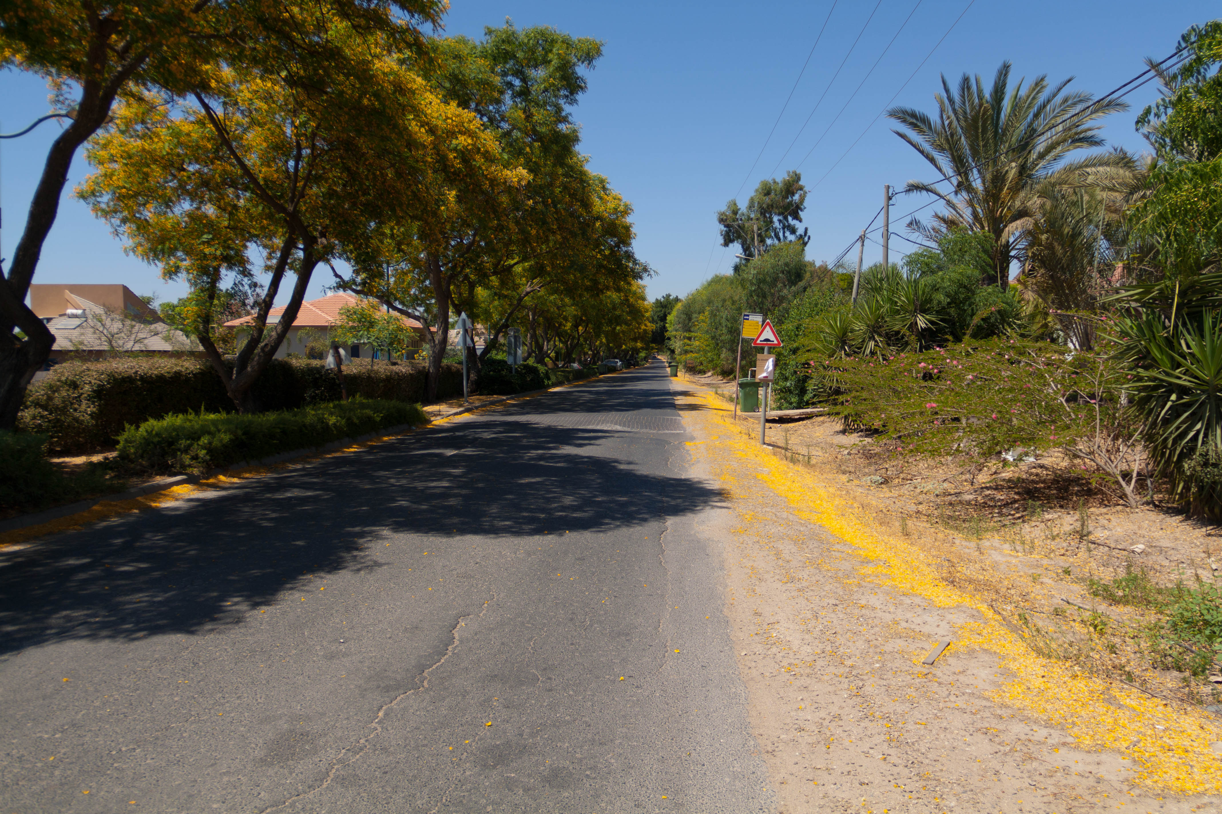 Street in Olesh